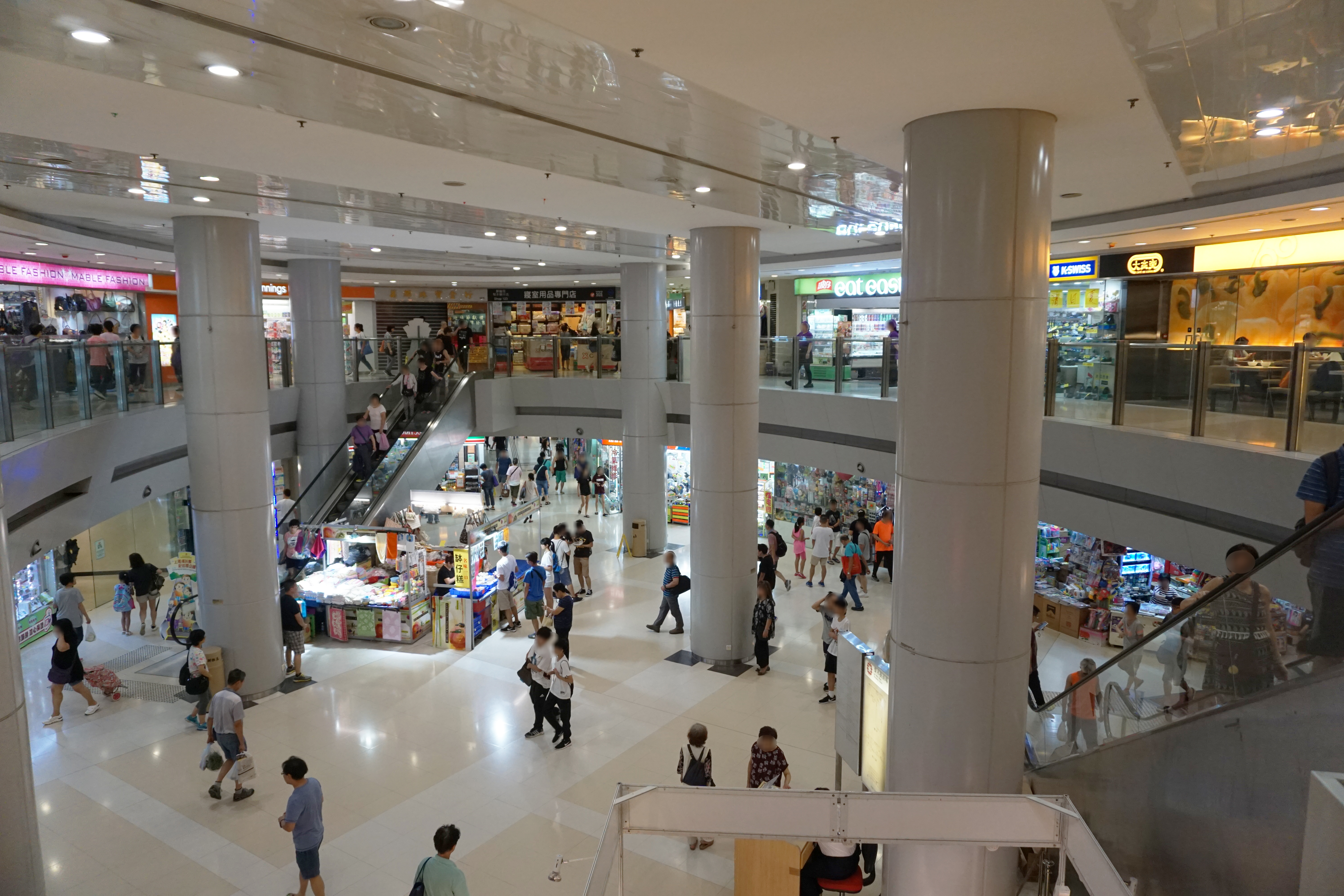 Lei Muk Shue Shopping Centre in Wo Yi Hop, Hong Kong.